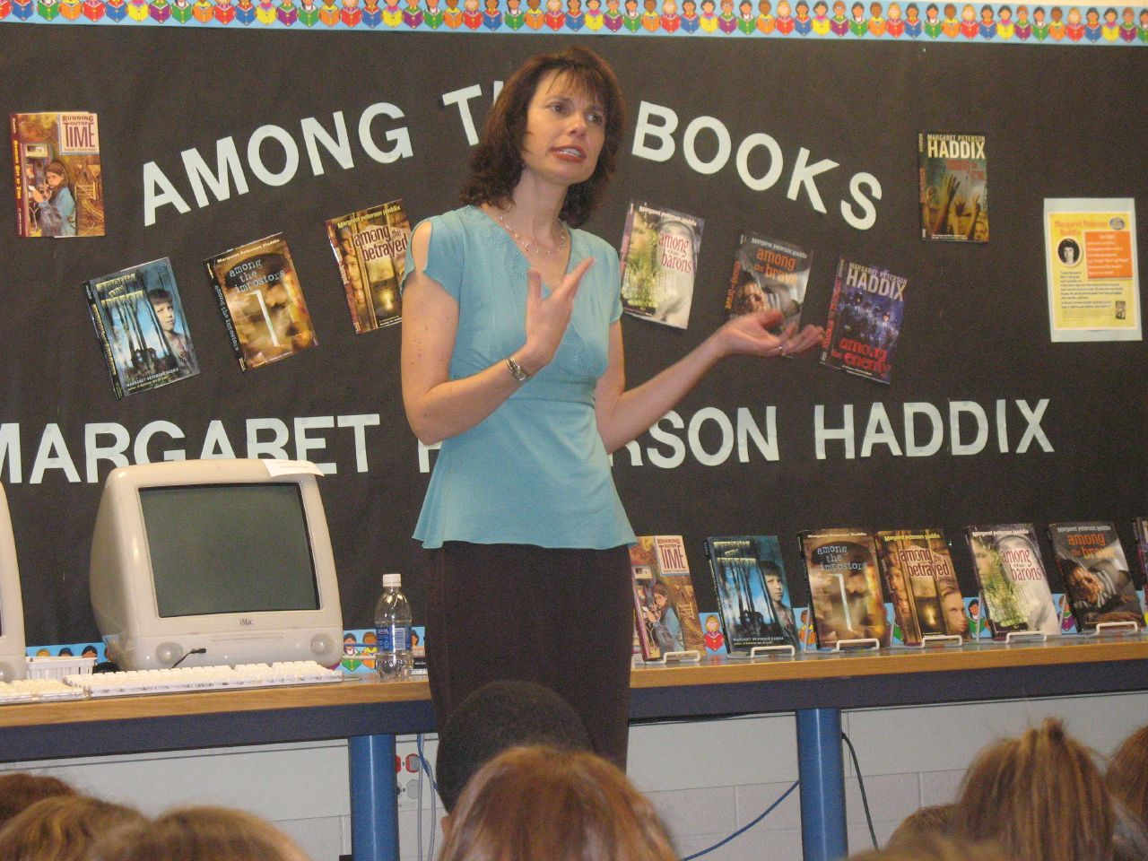 Margaret Peterson Haddix was our visiting author this year. She writes the Shadow Children books and many others. Great presentation. The kids love her books.Margaret Peterson Haddix Presentation